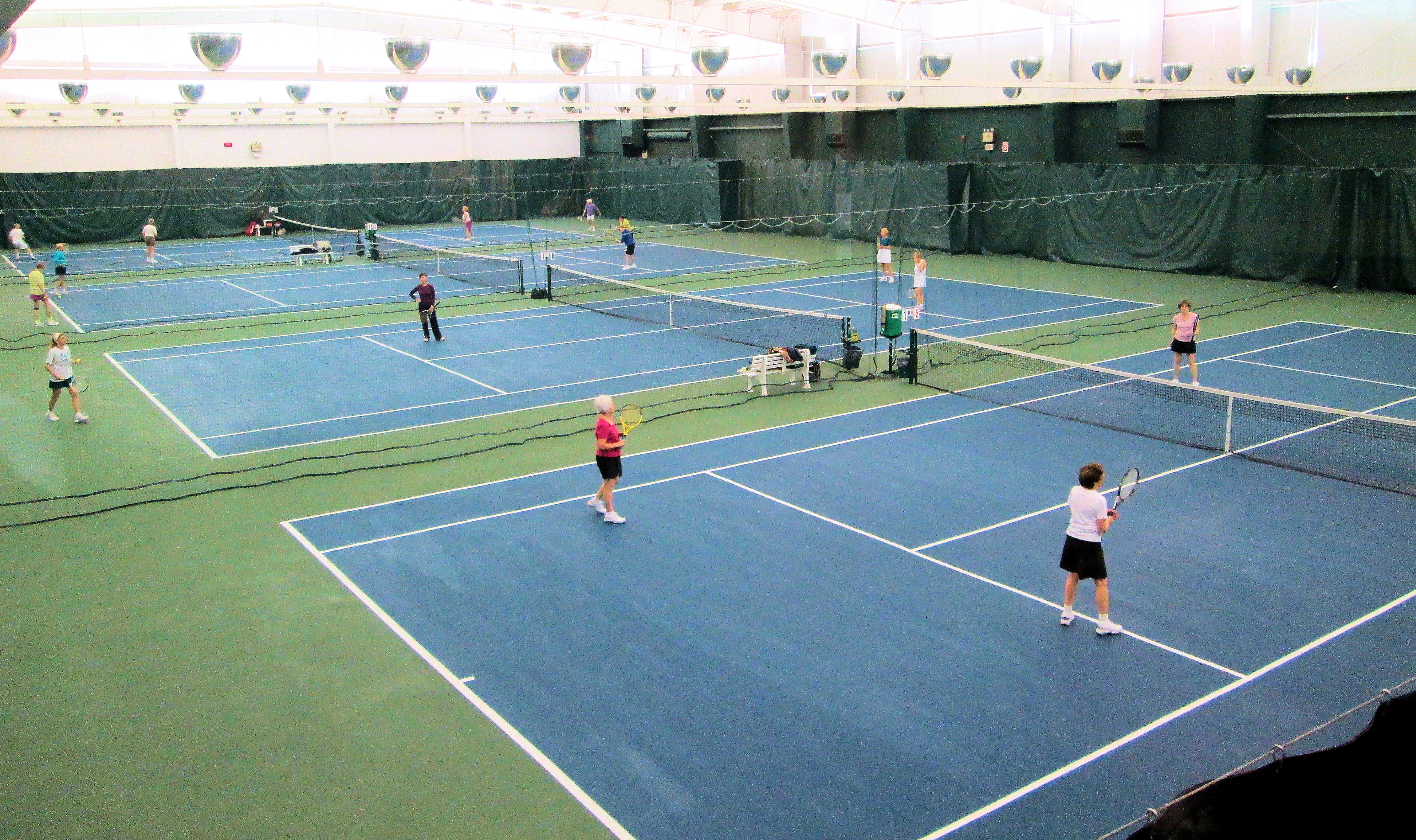 Tennis in Niles, Illinois